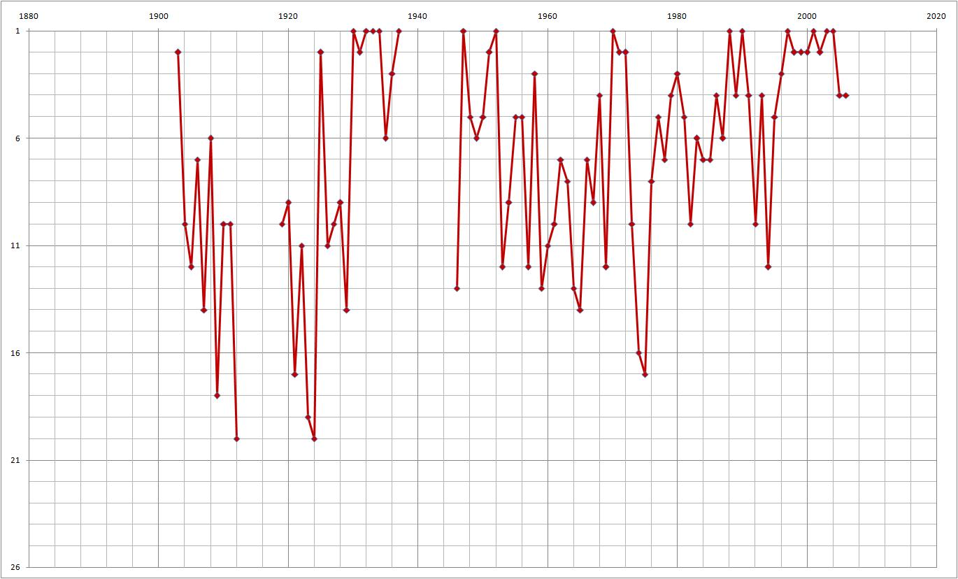 Arsenal Premier League seasons